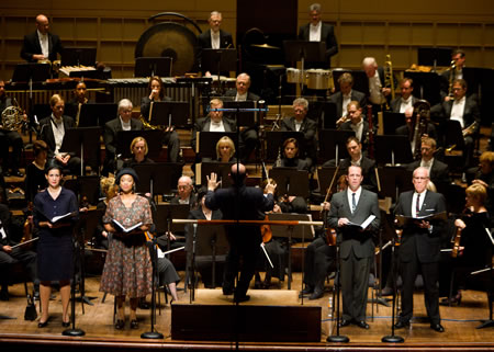 The Dallas Symphony Orchestra, under the direction of Jaap van Zweden, presents the premiere of Steven Stucky's oratorio August 4, 1964, with soloists, from left, mezzo-soprano Kelley O'Connor, soprano Laquita Mitchell, tenor Vale Rideout, and baritone Robert Orth.